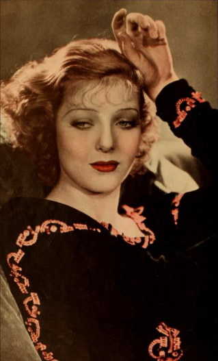 Loretta Young in Dec. 1932 issue of Photoplay